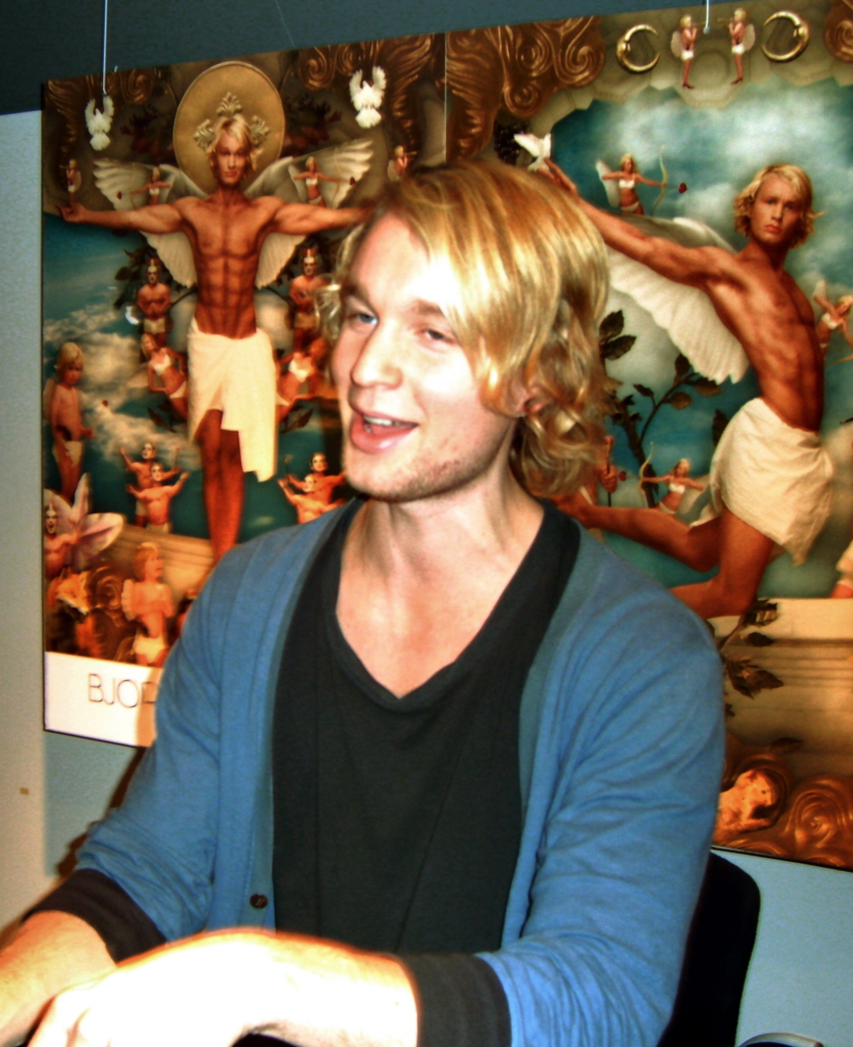 Björn Gustafsson, Swedish comedian at Åhlens, Stockholm, Sweden.